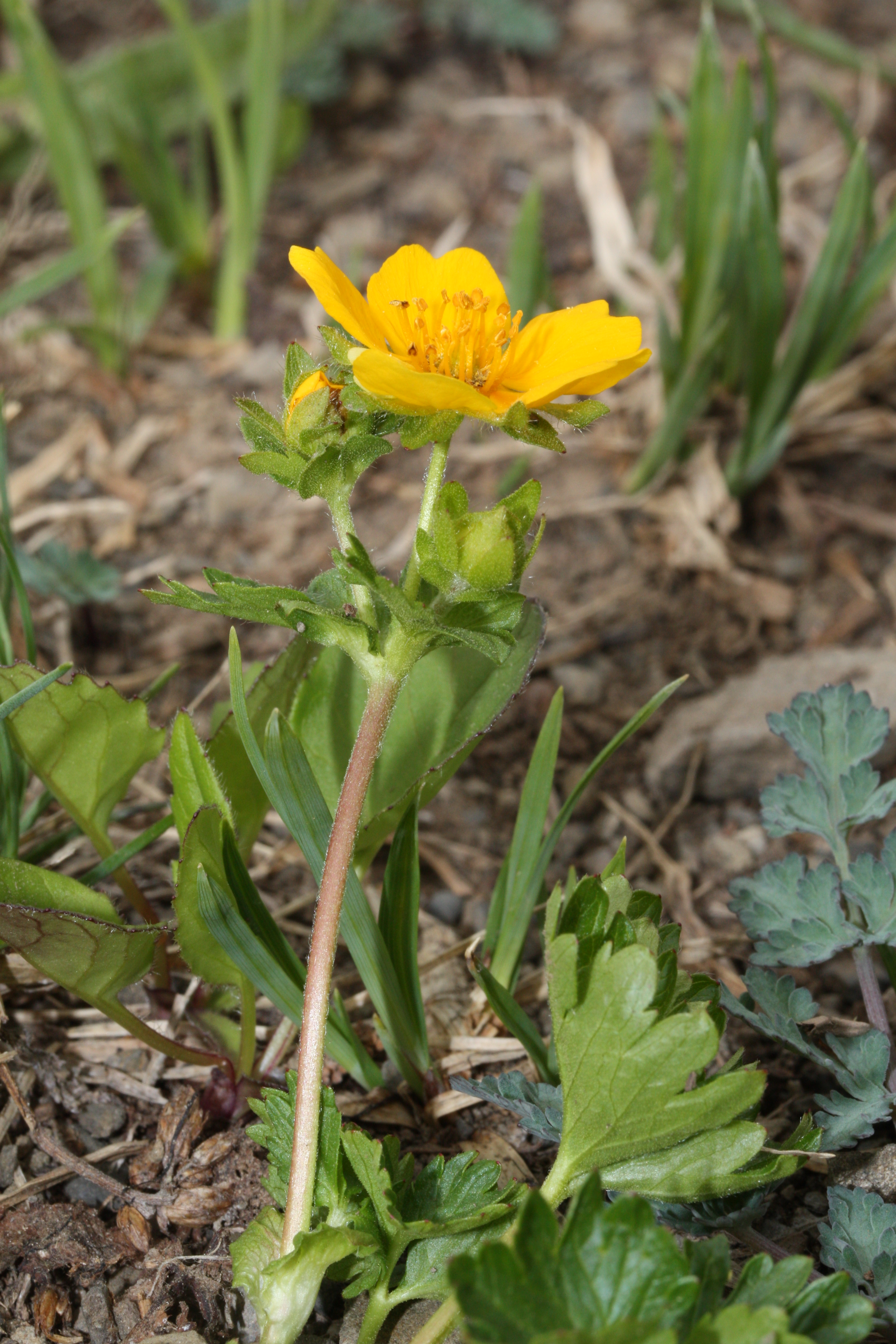 High Mountain Cinquefoil, Fan-foil